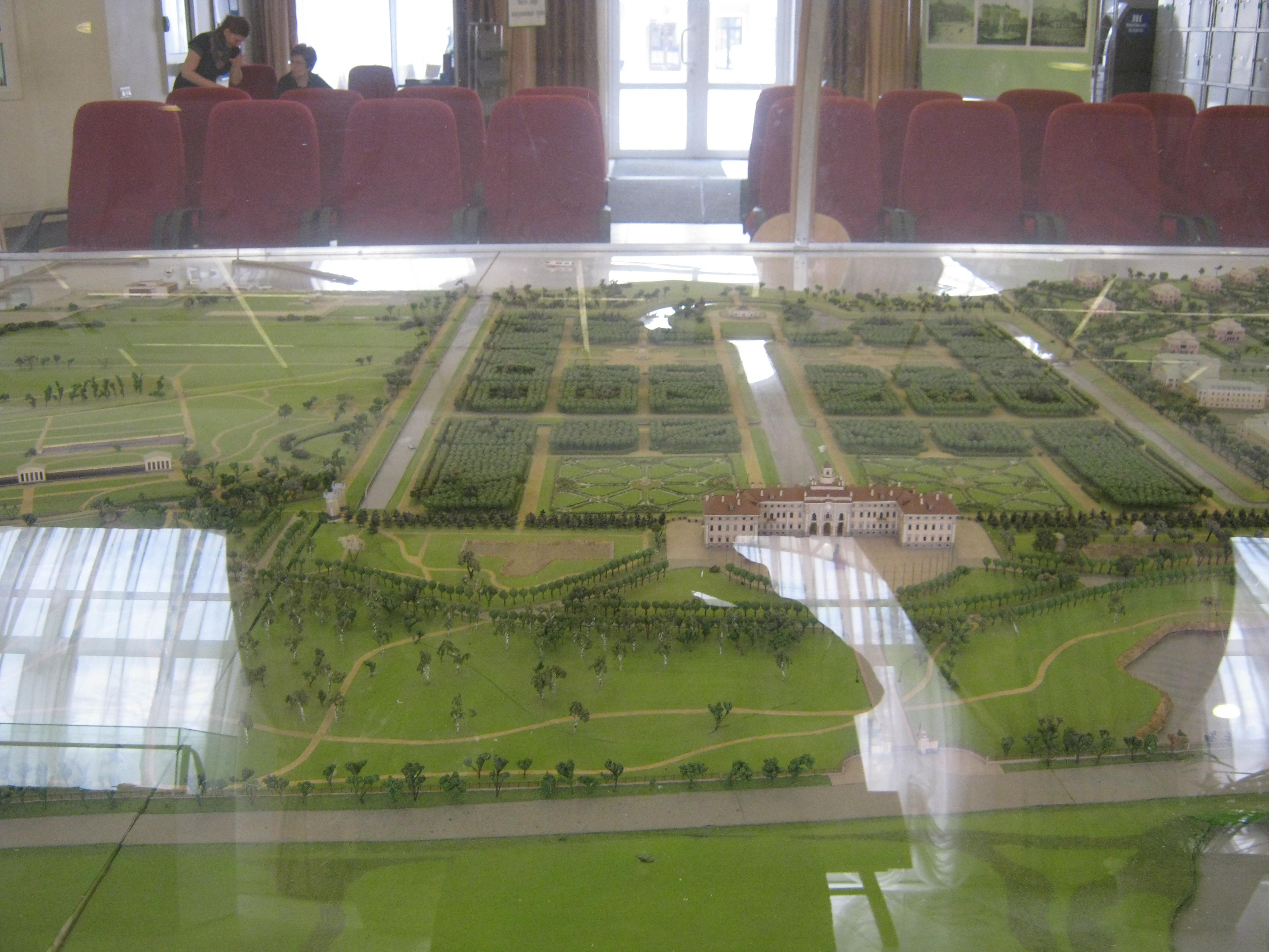 Saint Petersburg (Russia), Strelna, Constantine Palace.